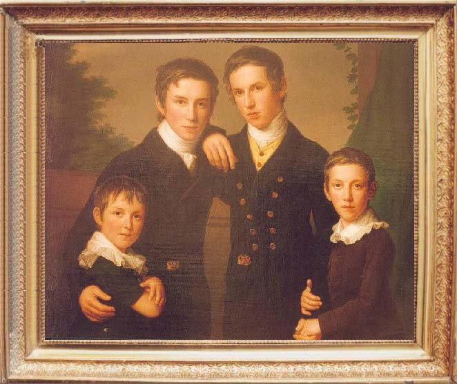 4 sons of Jérome (Hieronymus) Sillem, from left to right Adolph, Wilhelm, Carl and Ernst. Late 19th century oil painting by Friedrich Carl Grösser